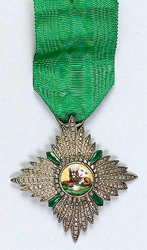 Order of the Lion and the Sun 5 class of Persia